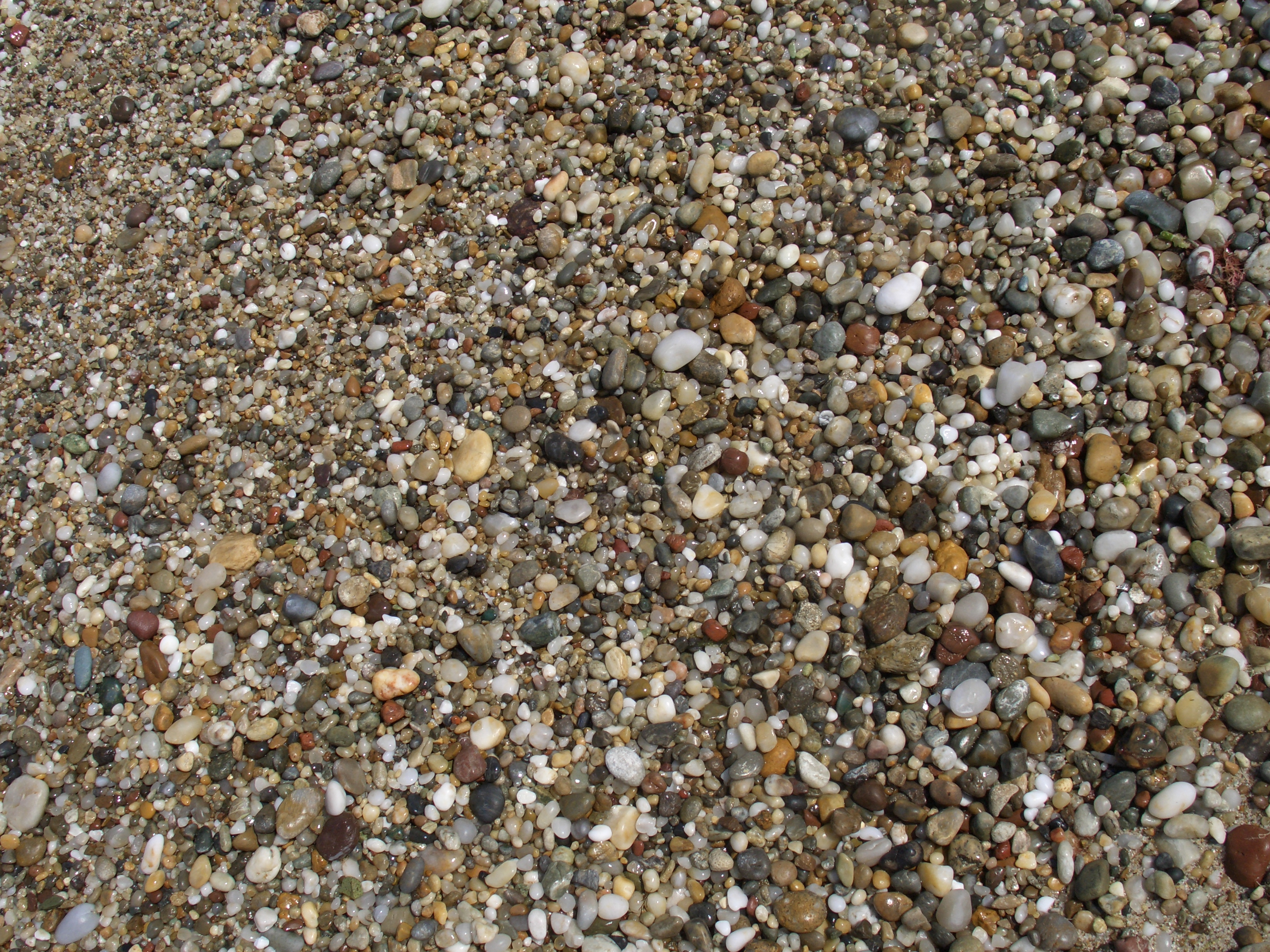 Wet colored pebbles from a Blacksea beach